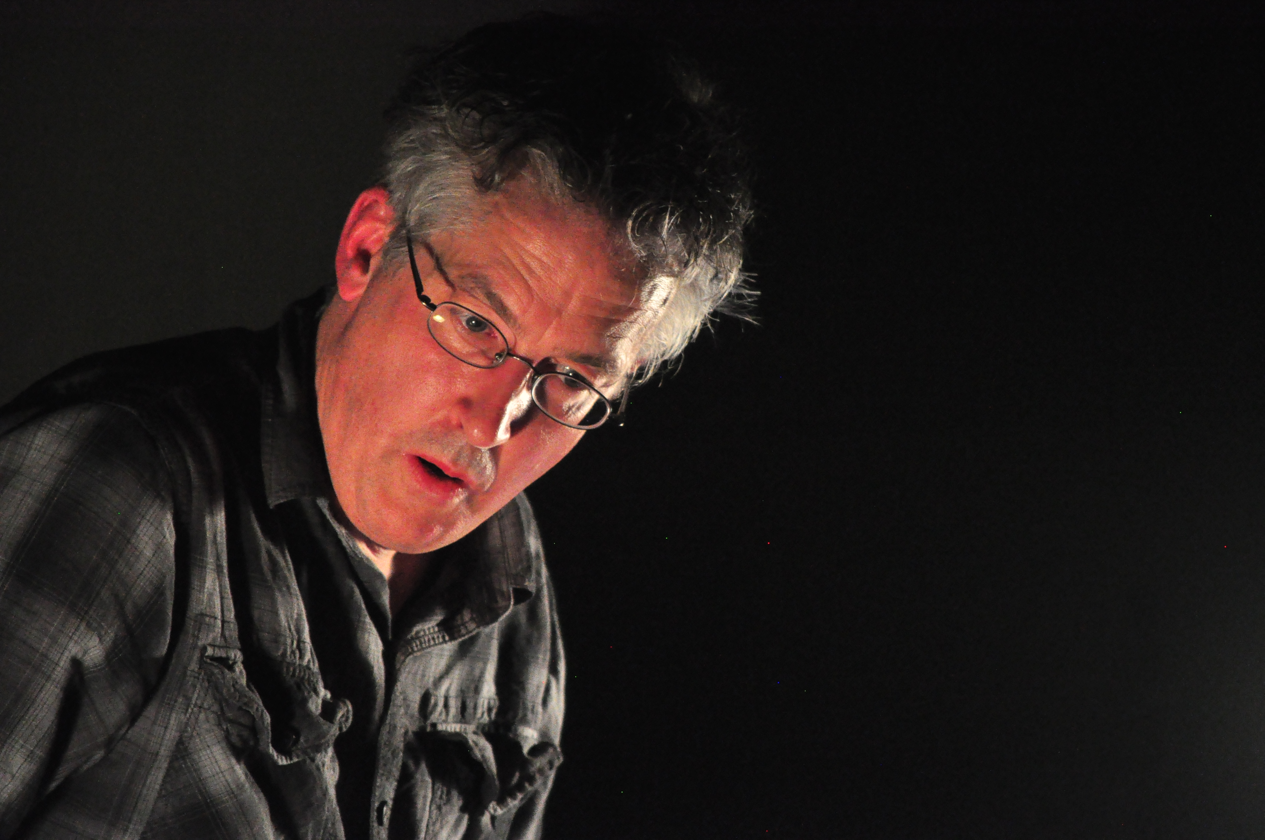 Mark Hosler (best known from Negativland) performing at the 20th Olympia Experimental Music Festival, June 2014.